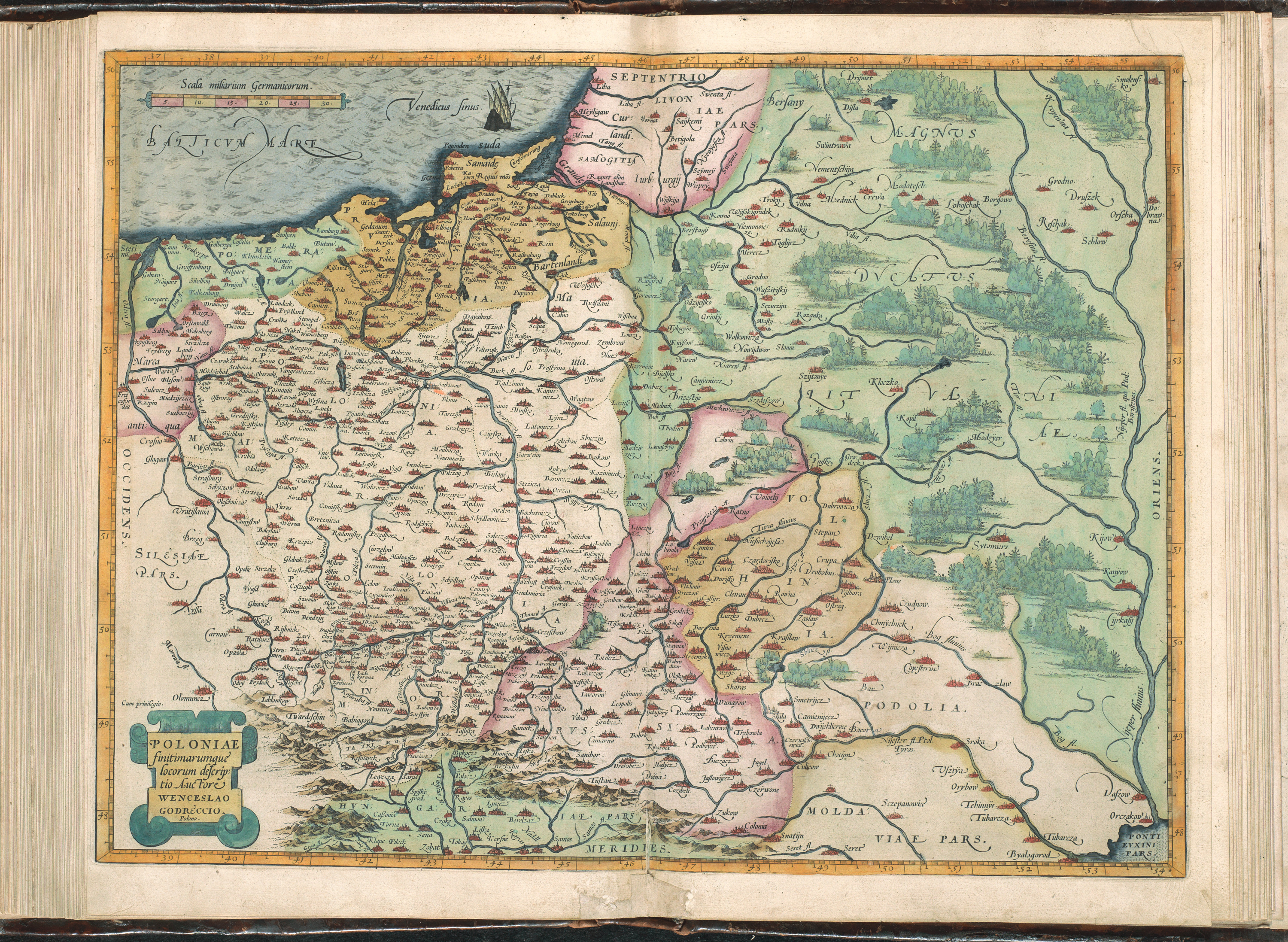 Plate '081av-081br' from the Atlas Ortelius by Abraham Ortelius. Original edition from 1571 with additions from 1573, 1579 and 1584. Complete description of this work (in Dutch) is available here. On this map Poland is shown.